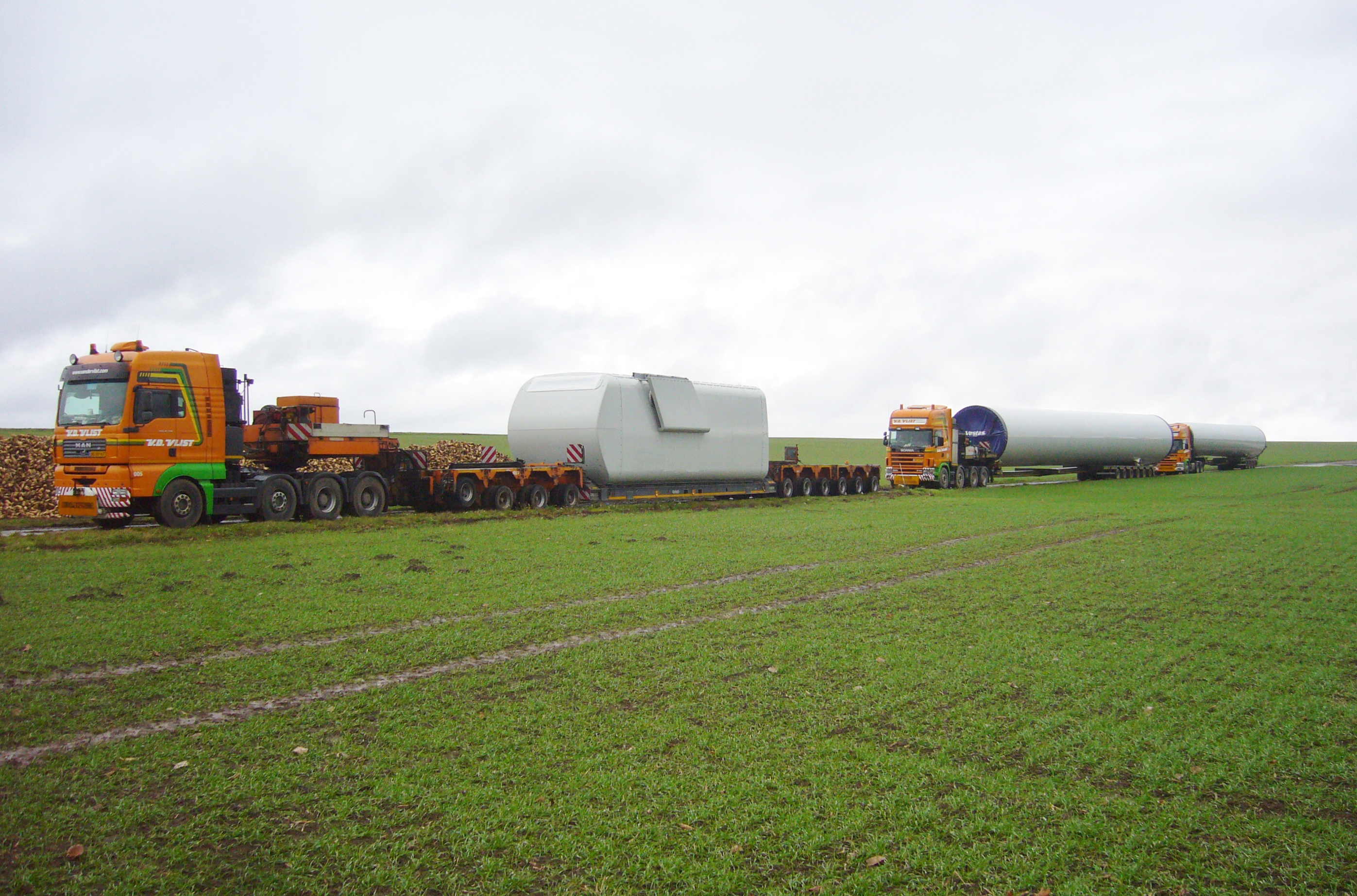 Van der Vlist modular equipment transporting a nacelle and towers for wind turbines